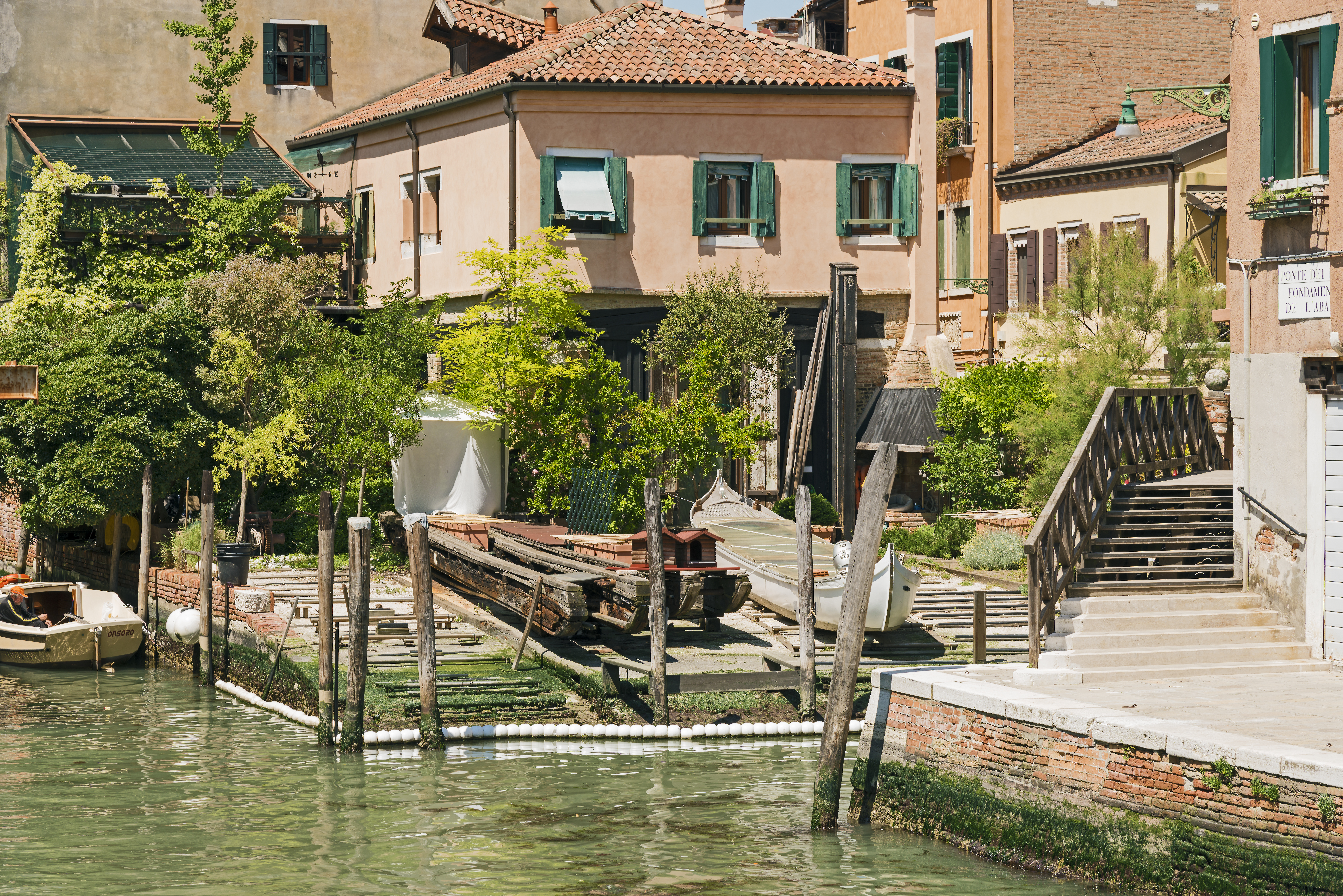 Squero dei Muti Venice (construction site gondolas). Rio dei Muti.